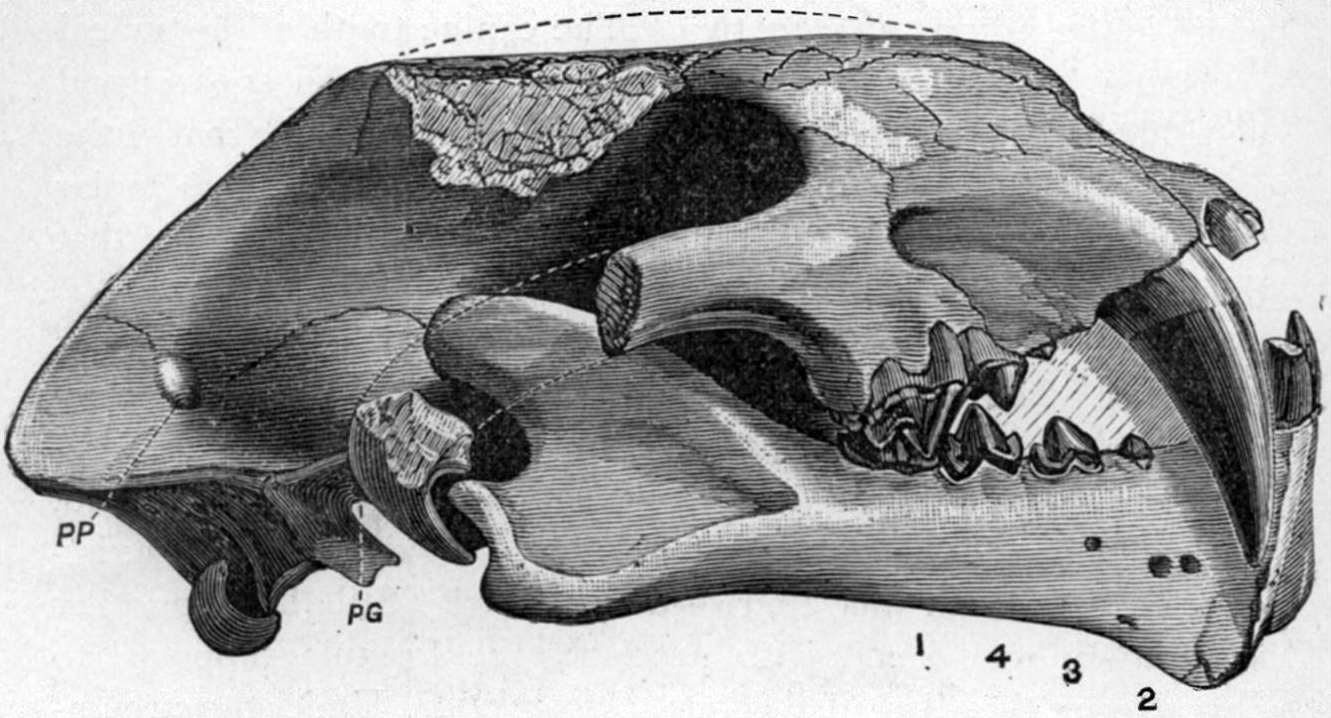 Skull of Pogonodon platycopis.